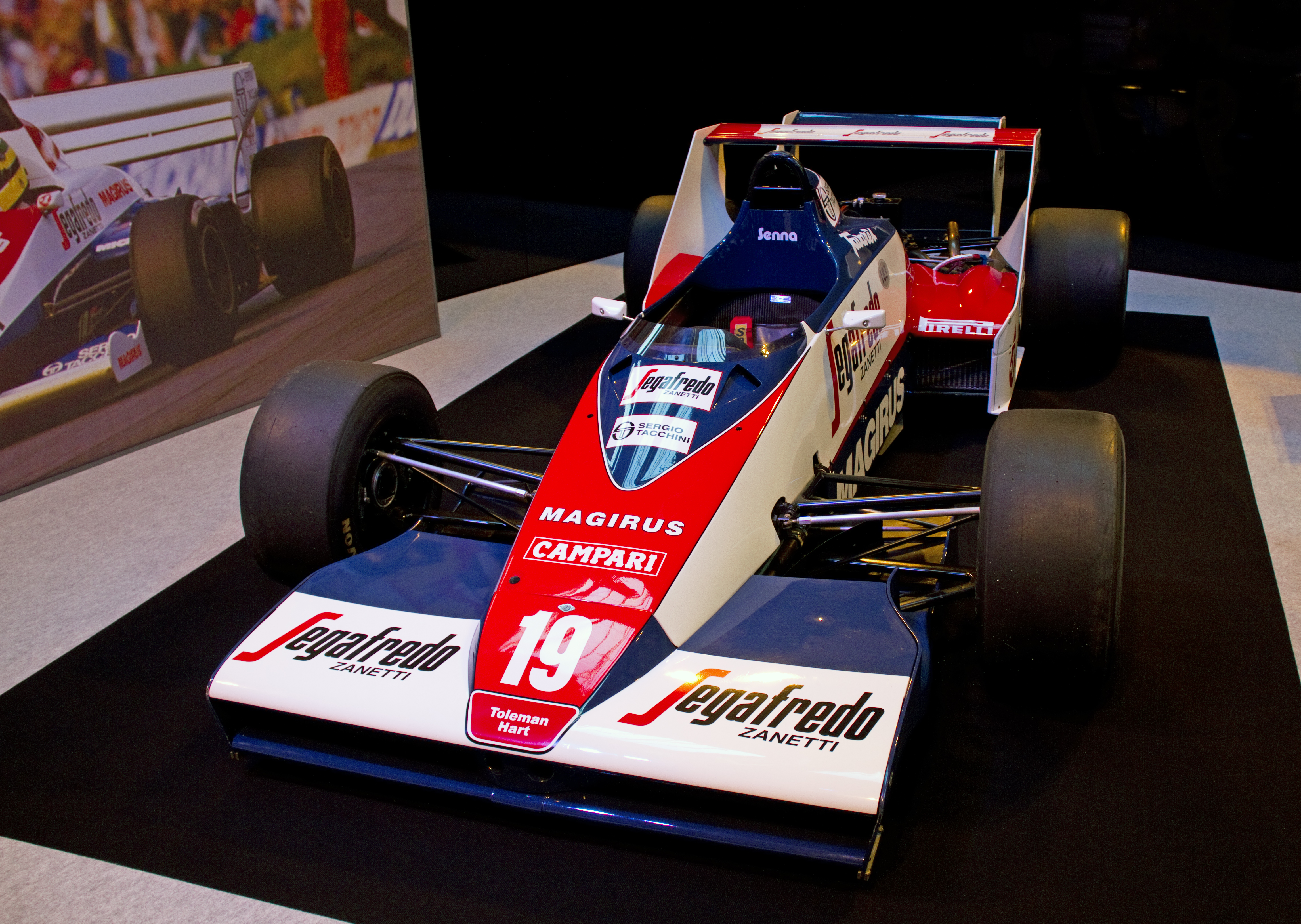 1984 Toleman TG183B (driven by Ayrton Senna), at the 2012 Autosport International.